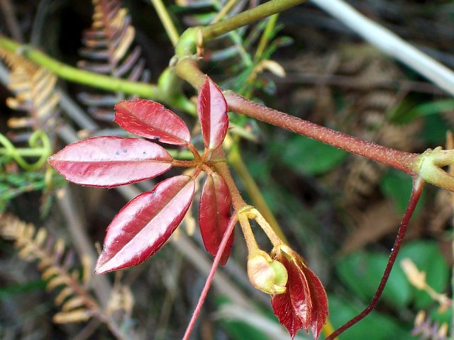 Cissus hypoglauca young red leaves at Brisbane Water National Park